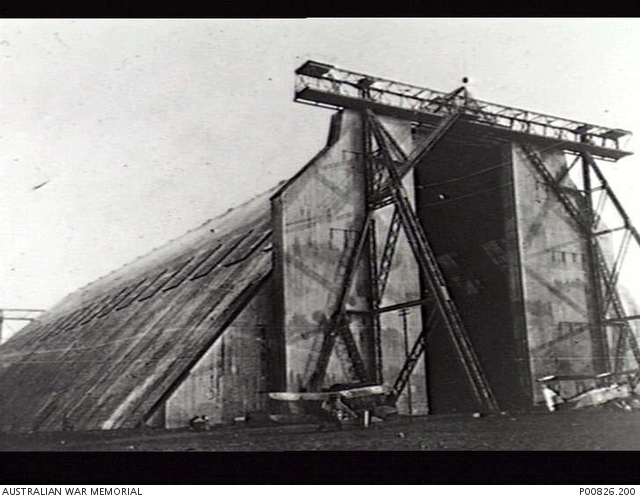 FORT COGNELEE, BELGIUM. 1918-11. A GERMAN ZEPPELIN SHED WITH ALLIED AIRCRAFT PARKED IN FRONT. (ORIGINAL PRINTS HELD IN AWM ARCHIVE STORE) (DONOR M. CORKHILL)